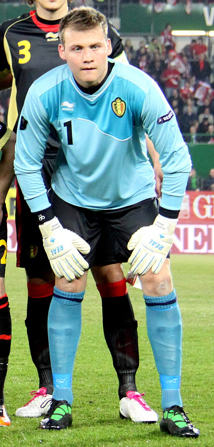 Simon Mignolet cropped from Belgium against the Austrian national football team (0:2), 2011-03-25 in Vienna (Ernst-Happel-Stadion